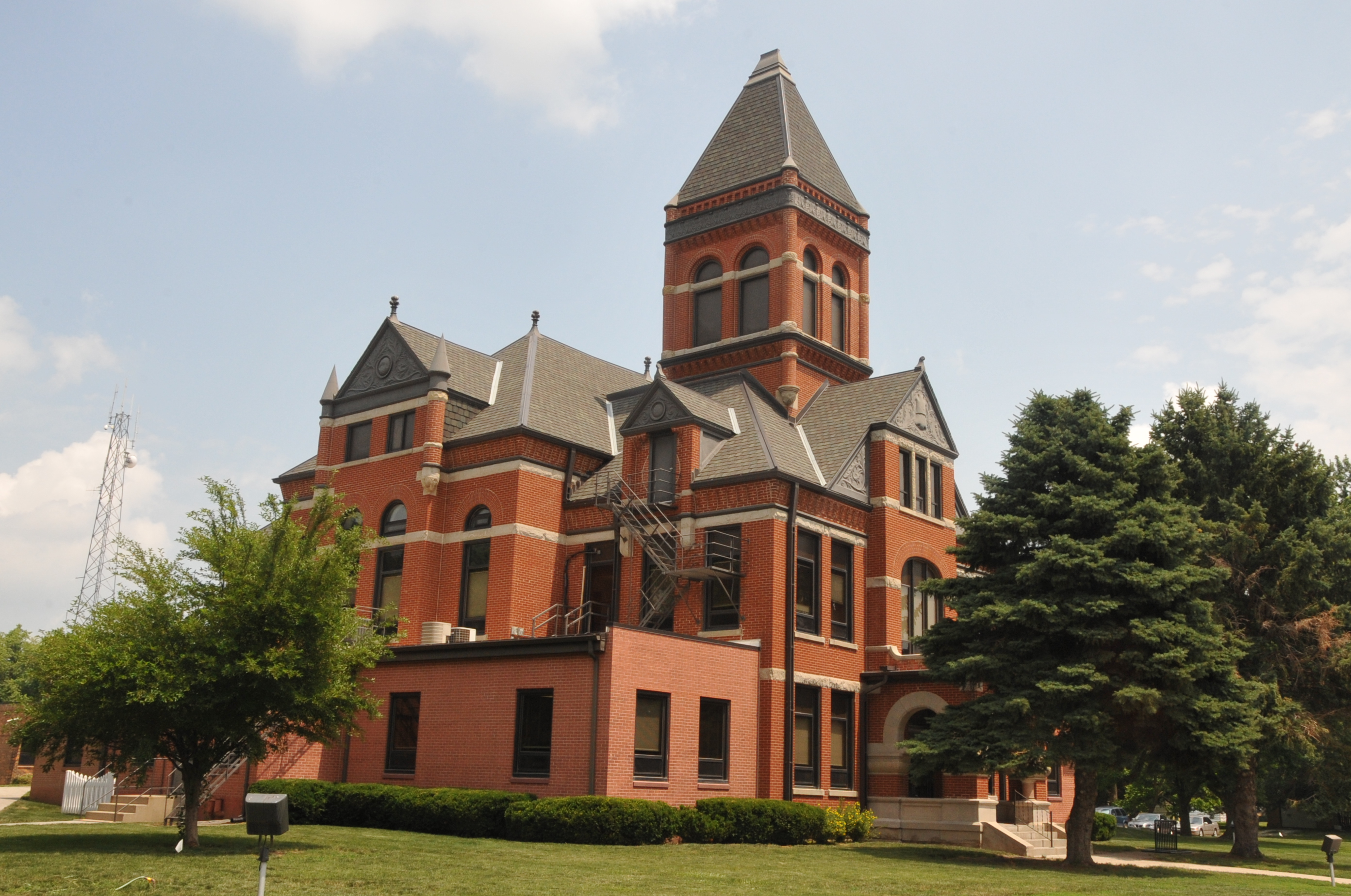 BUILT IN 1892 VICTORIAN ROMANESQUE